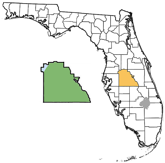 Map showing location of Polk County, Florida.